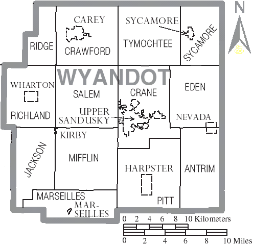 Map of Wyandot County, Ohio, United States with township and municipal boundaries